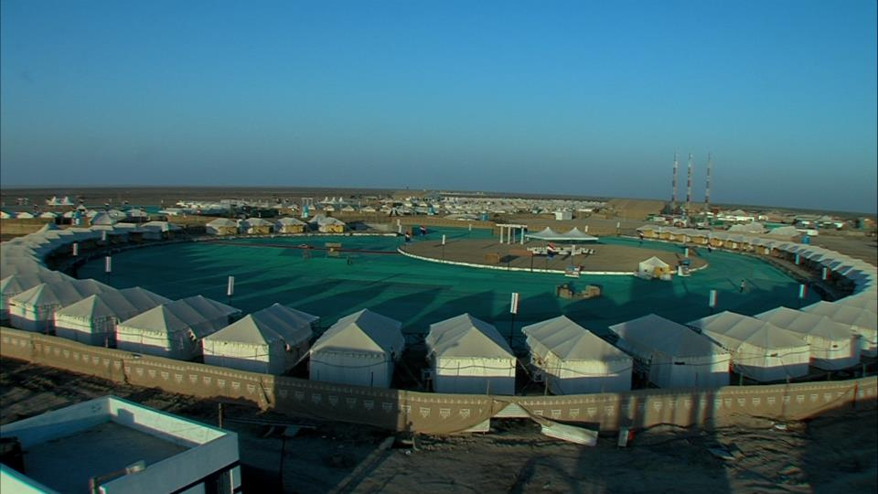 the white rannof kutch tent view of dhordo village. Please like and follow Gujarat Tourist Guide in Social media and get update:- Facebook page Youtube videos Twitter Follow Whereas you make a visit to Gujarat, a visit to the present Travel Guide is a must. You have also Book Hotel, Tourist Guide and Cars in Gujarat, Just Call 09974335693 or visit